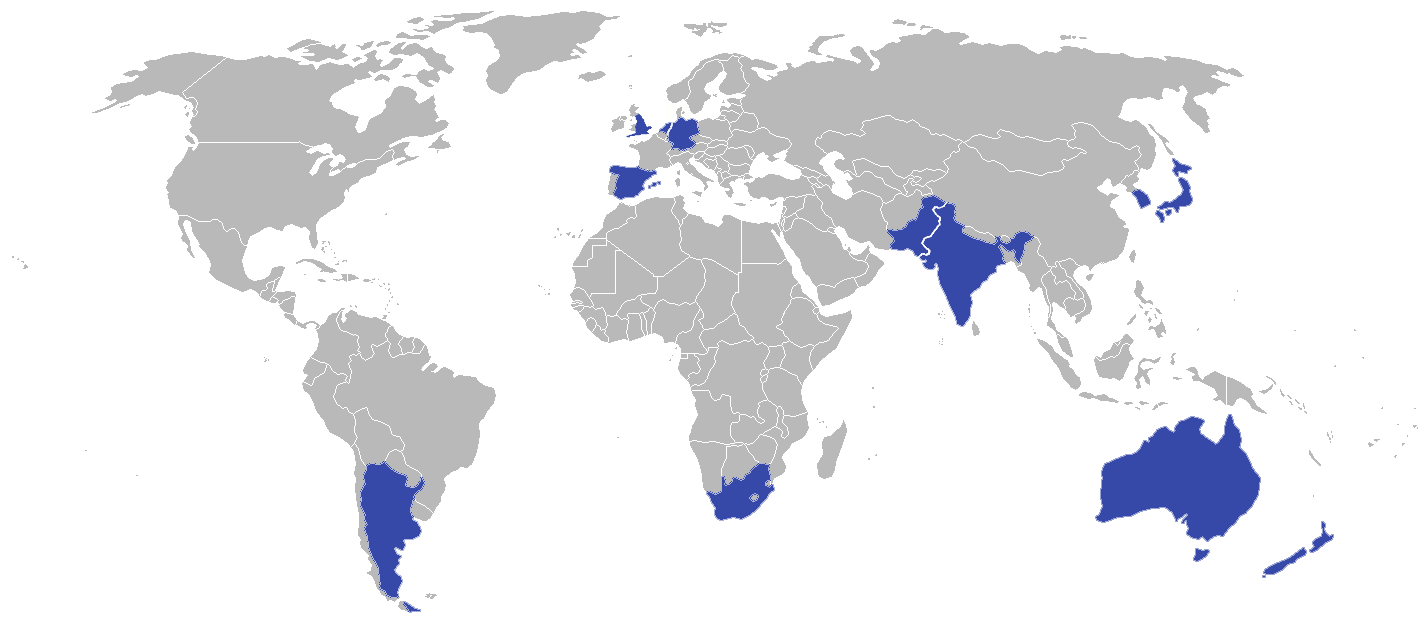 Teams of FIH Hockey World Cup 2006 based on image:BlankMap-World.png